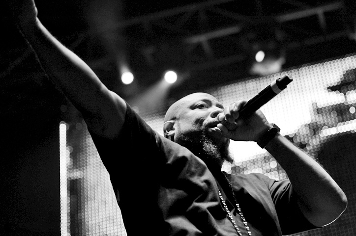 WC in action